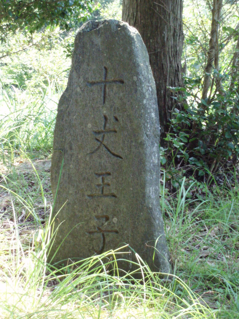 Monument_of_JYUJO-oji_remains